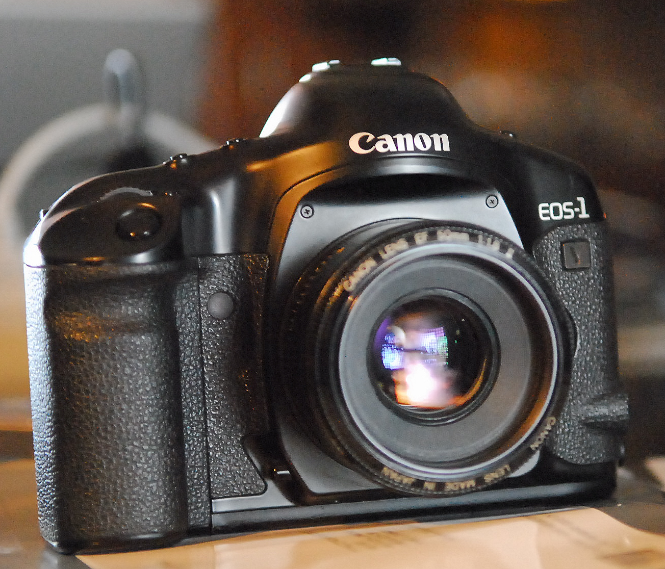 Canon EOS-1V 35mm SLR body with 50mm f/1.8 II lens attached.